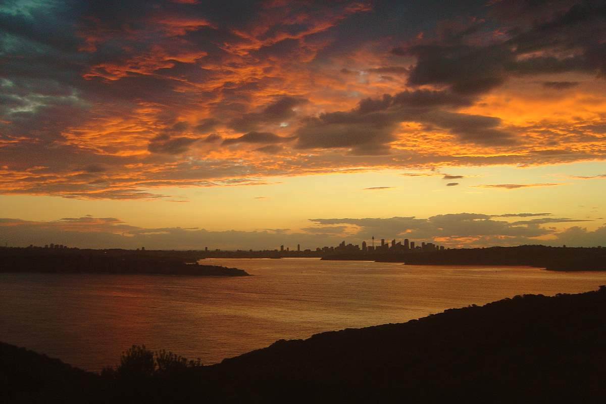 View of Sydney from North Head.